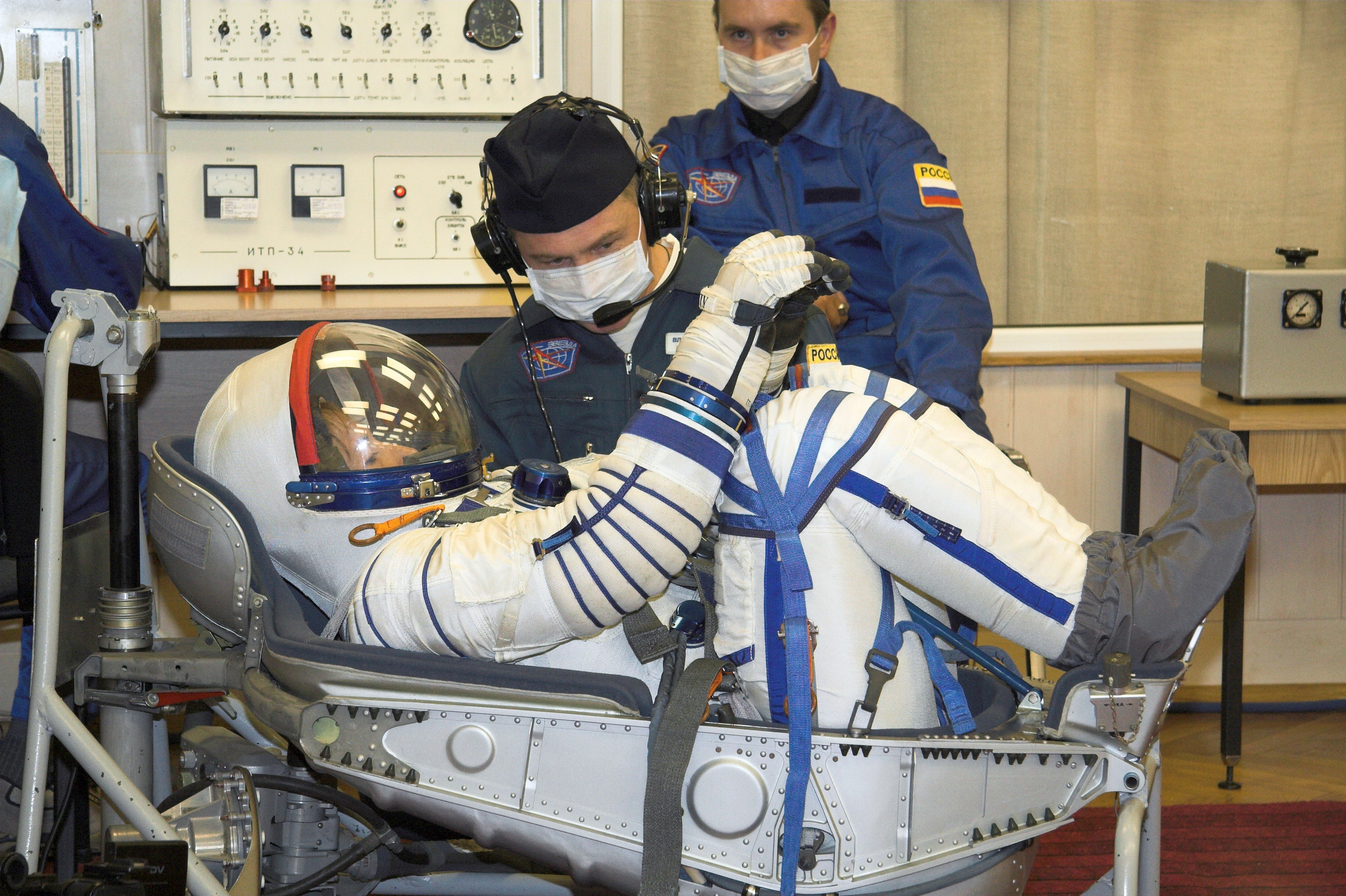 SC2007-E-48358 (28 Sept. 2007) --- NASA astronaut Peggy A. Whitson, Expedition 16 commander, has a pressure suit leak check performed on her Russian Sokol launch and entry suit at RSC Energia Assembly and Testing Facility in Baikonur, Kazakhstan, in preparation for her launch on a Soyuz TMA-11 spacecraft to the International Space Station scheduled for Oct. 10. Photo credit: NASA/Victor Zelentsov